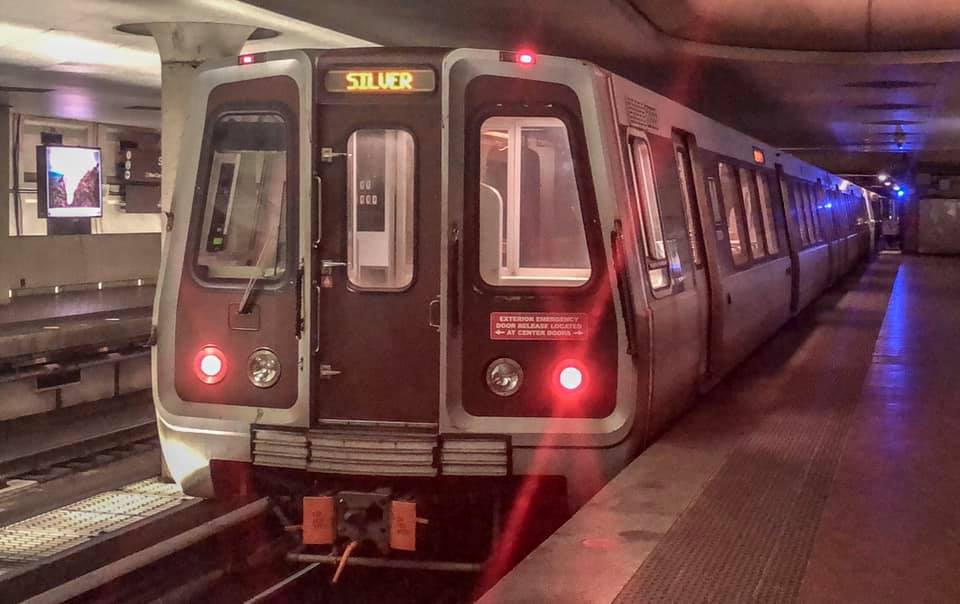 WMATA Alstom 6000 Series On The Silver Line